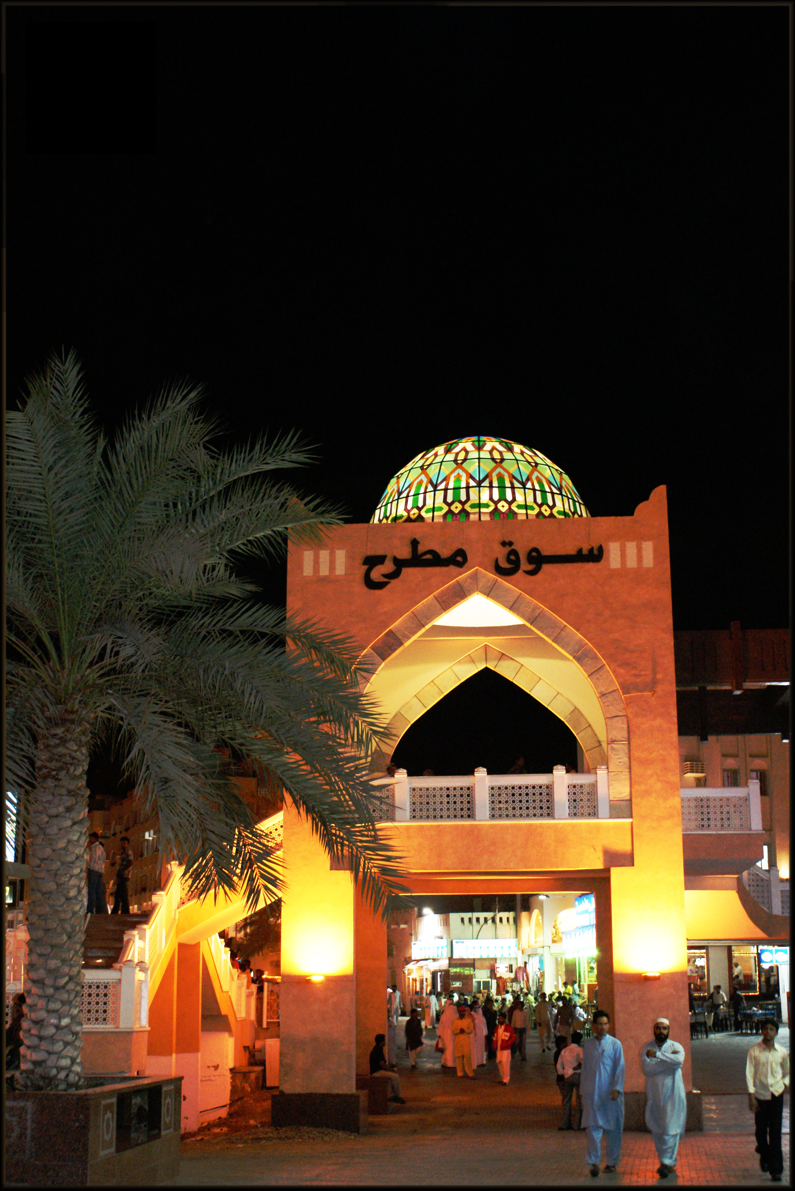 واجهة سوق مطرح